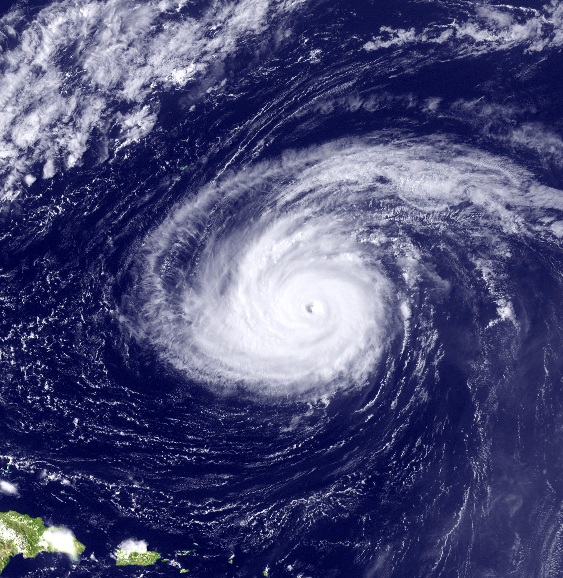 Hurricane Danielle is a strong and dangerous category 4, with sustained winds near 115 knots. The image shows the cold front exiting the continental US, which will continue to steer Danielle away from land.